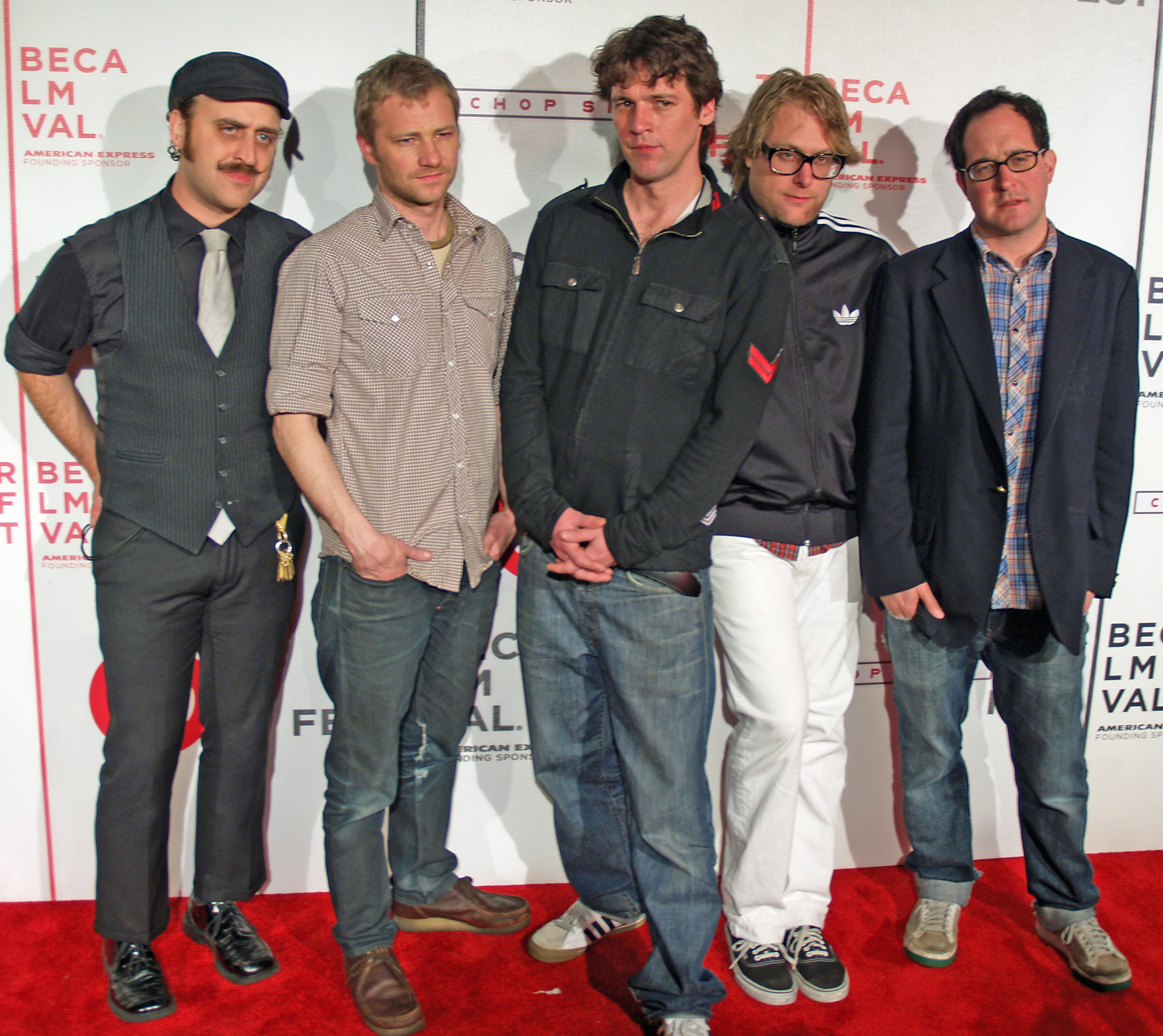 The Hold Steady at Webster Hall in New York City for the 2008 Tribeca Film Festival.